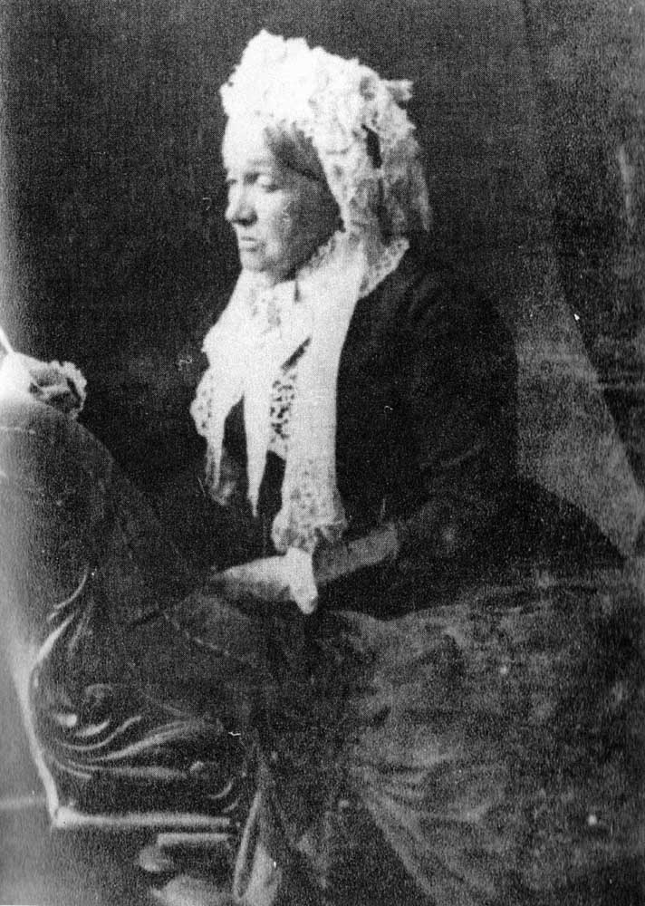 Photograph of Elizabeth "Betsy" Throsby (nee Broughton), survivor of the 1809 Boyd massacre.